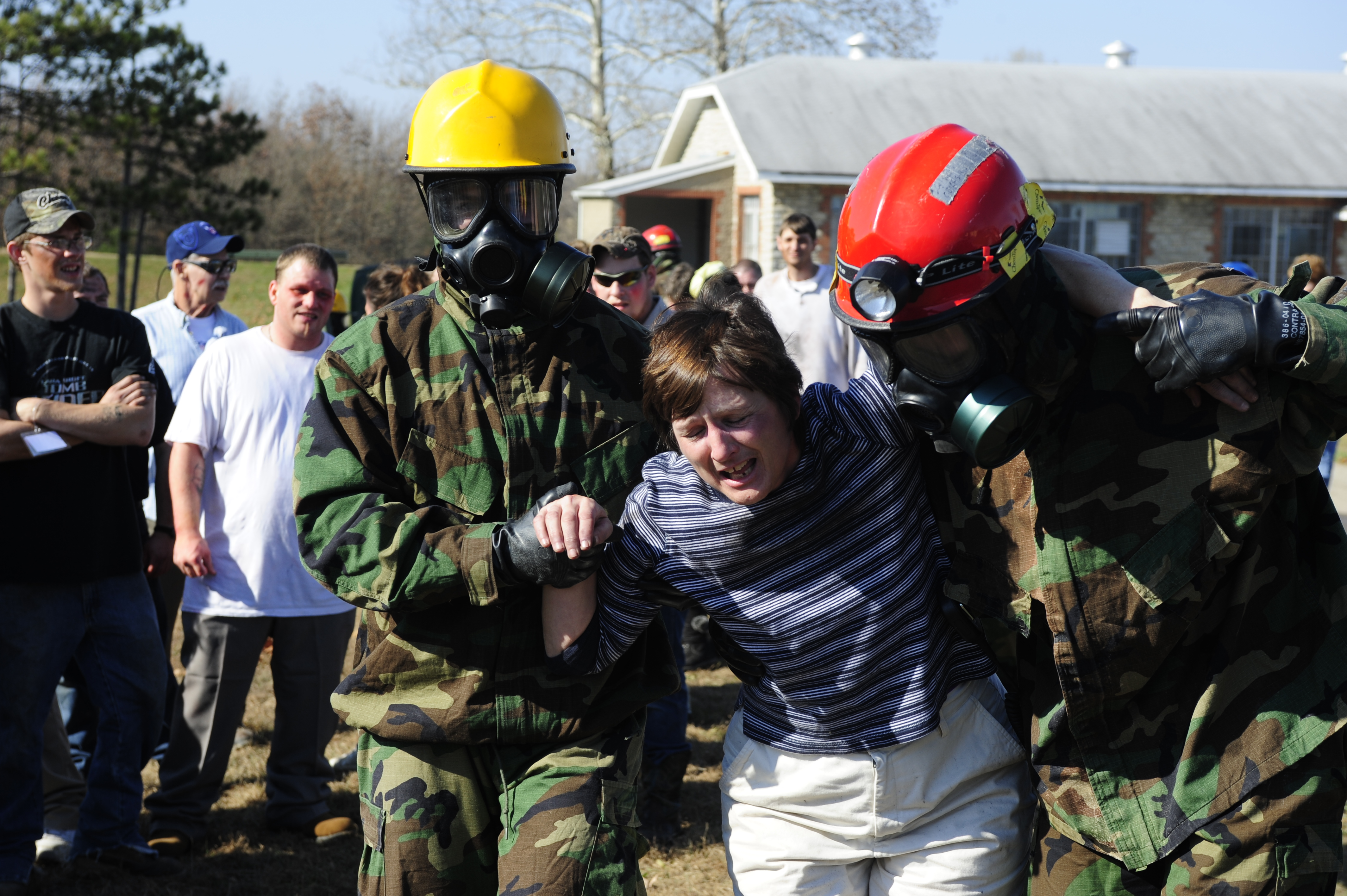 U.S. Marines assigned to Chemical Biological Incident Response Force, Indian Head, Md., assist a civilian role player after a simulated chemical, biological, radiological, nuclear, and high-yield explosive (CBRNE) incident at Muscatatuck Urban Training Center, Ind., Nov. 8, 2009, during exercise Vibrant Response. Vibrant Response is a field training exercise in which Department of Defense forces assist federal, state, local and tribal partners in saving lives, preventing further injury and providing temporary critical support to enable community recovery after a CBRNE incident.